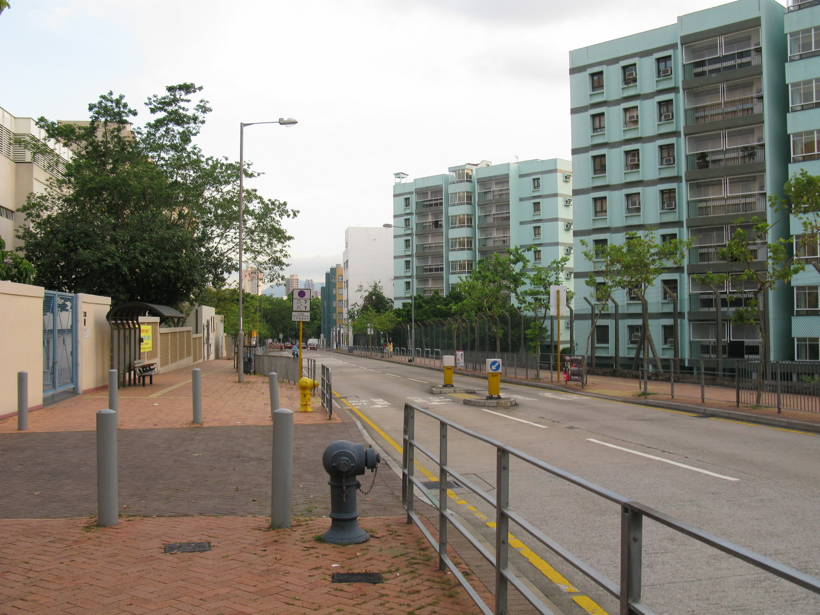 Renfrew Road near Kowloon East Barracks Block 44. The old campus of the Hong Kong Institute of Vocational Education (Lee Wai Lee) is on the left